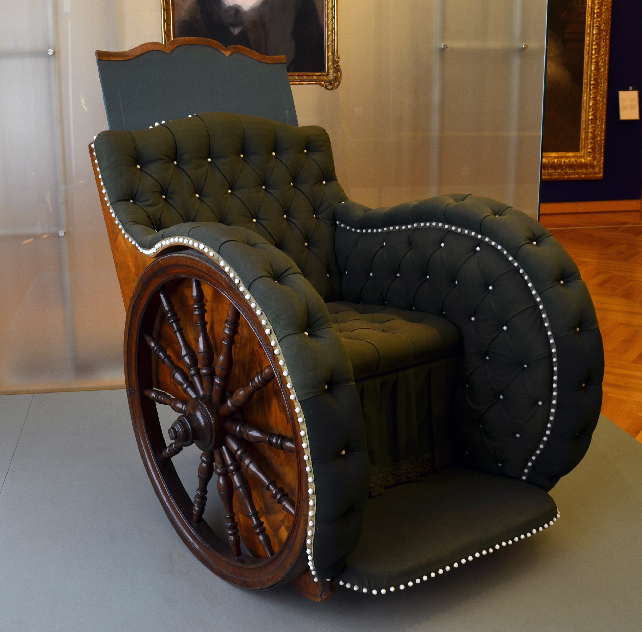 Wheelchair of Empress Elisabeth Christine (1691-1750), around 1740. In the Imperial Furniture Collection (Kaiserliches Hofmobiliendepot) in Vienna.